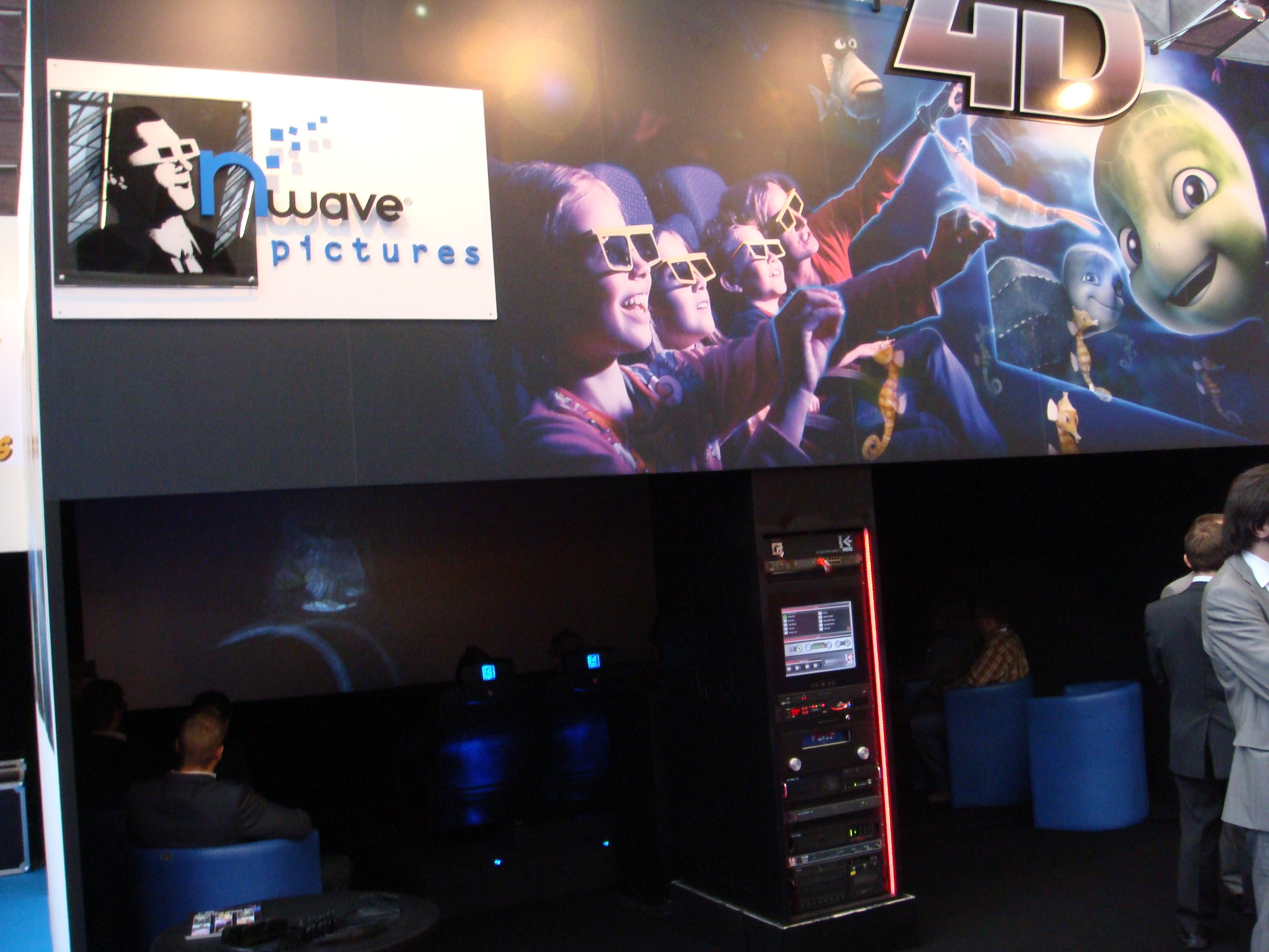 NWave at IAAPA